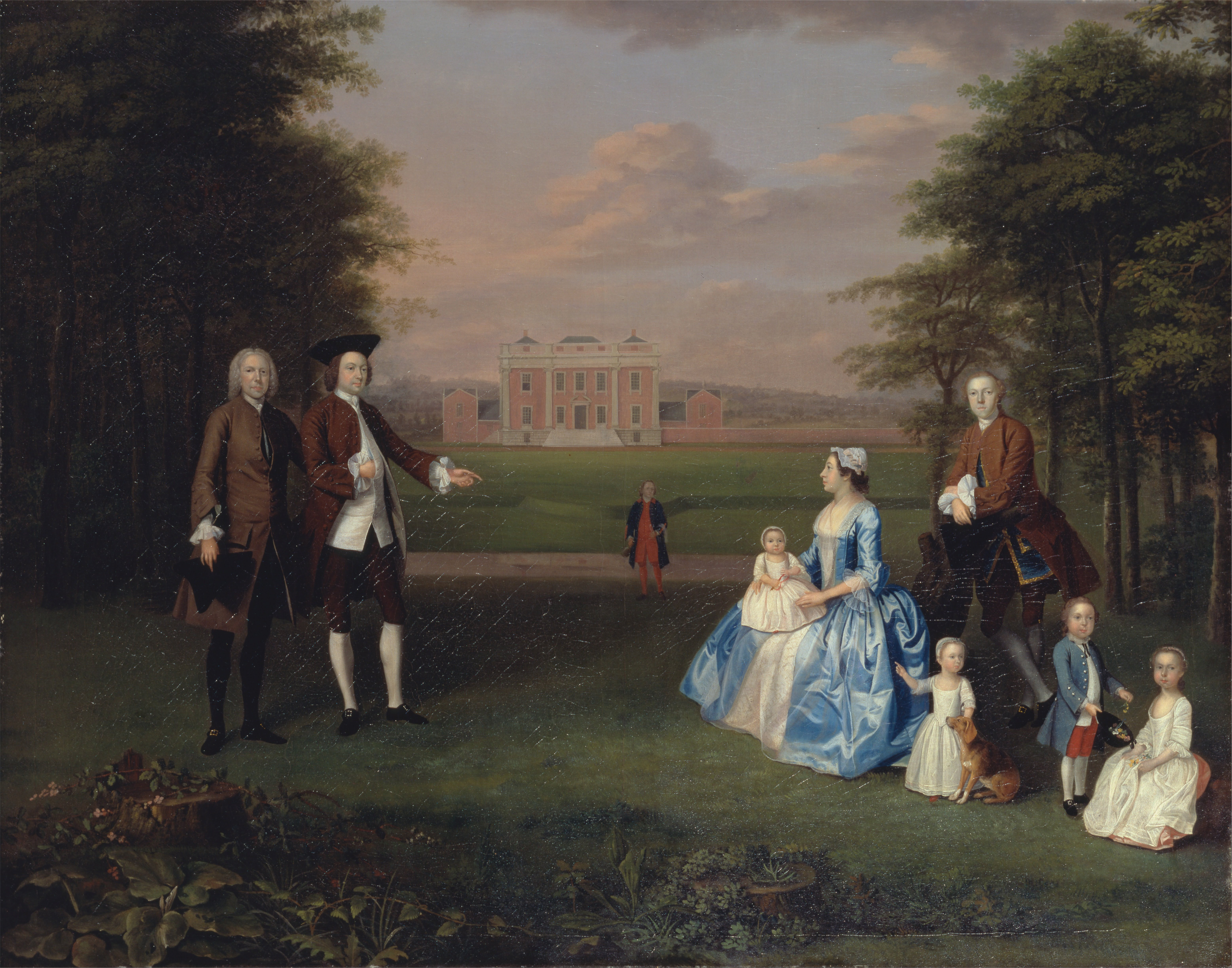 Robert and Elizabeth Gwillym and their family, of Atherton Hall, Herefordshire oil on canvas 101.6 x 127 cm